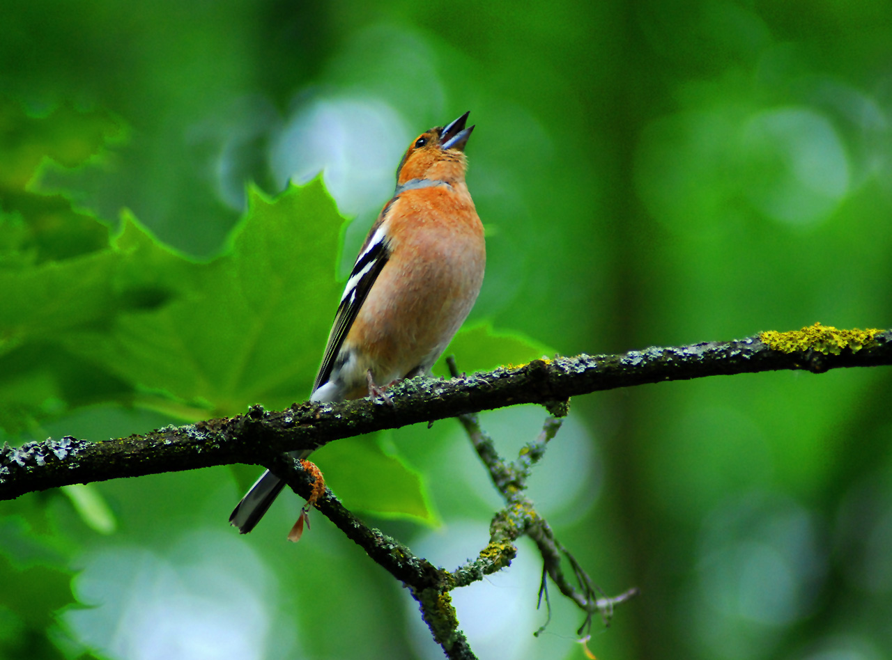 Chaffinch (Fringilla coelebs) singing, Germany.